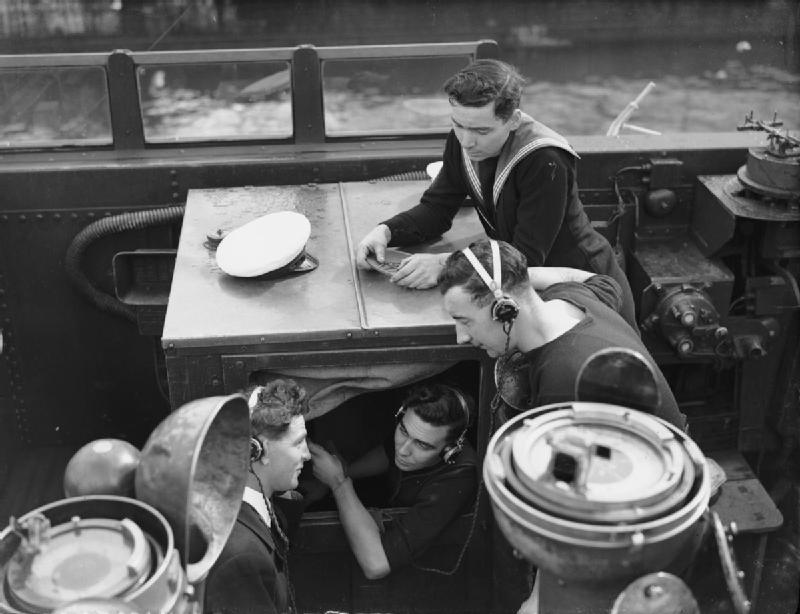 HMS Anthony on An Anti-submarine Patrol, Off Gibraltar, 26 January 1944 Anti-submarine control officer (left) with three radio ratings listening through headphones to the ASDIC equipment on the compass platform aboard HMS ANTHONY.